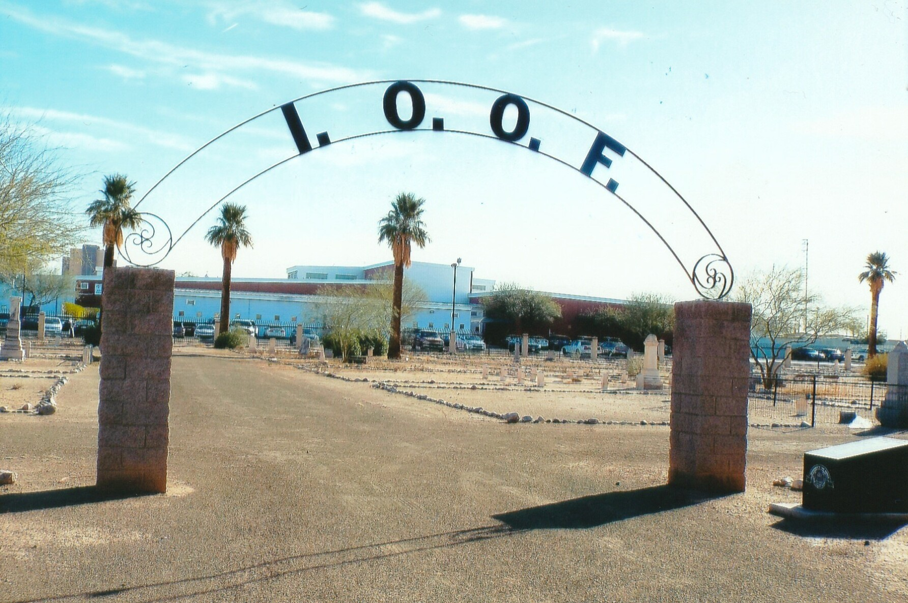 Entrance to the "Independent Order of Odd Fellows (IOOF)" Cemetery of the Pioneer and Military Memorial Park